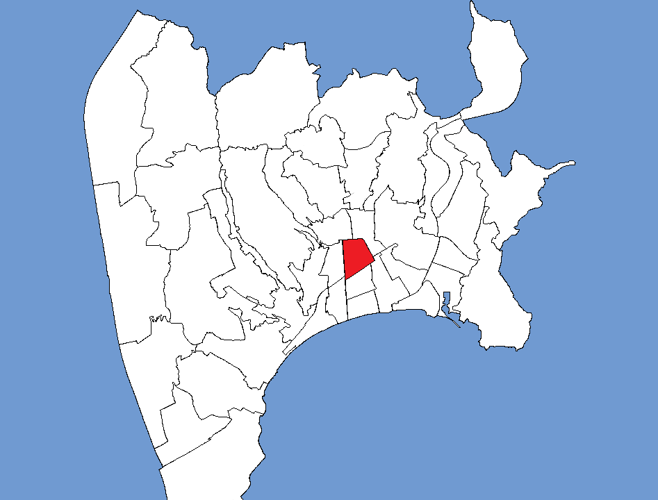 Location of the neighbourhood Vernier in Nice